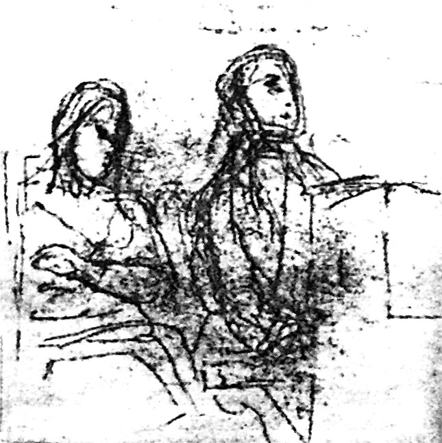 Chopin and George Sand - sketch to the painting Chopin and Sand, now cut and separated (Chopin in Louvre, Sand in Ordrupgaard-Museum). Sketch is the Louvre